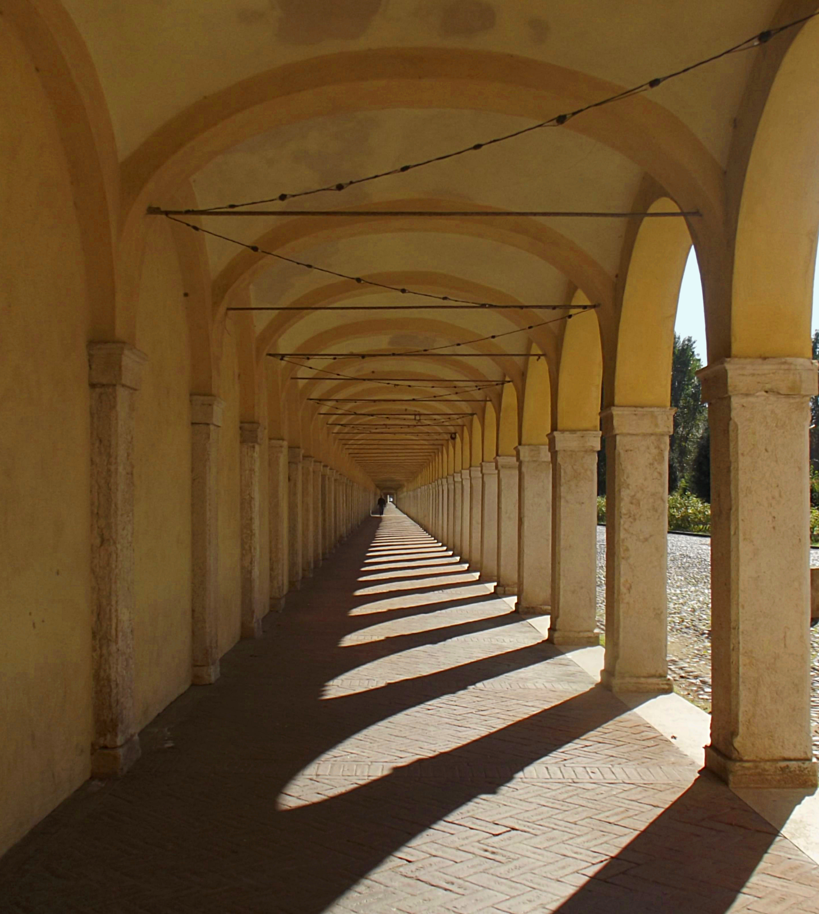 Capuchin friars arcades: sequence of 143 arches built in Comacchio in 1647-Ferrara (Italy)